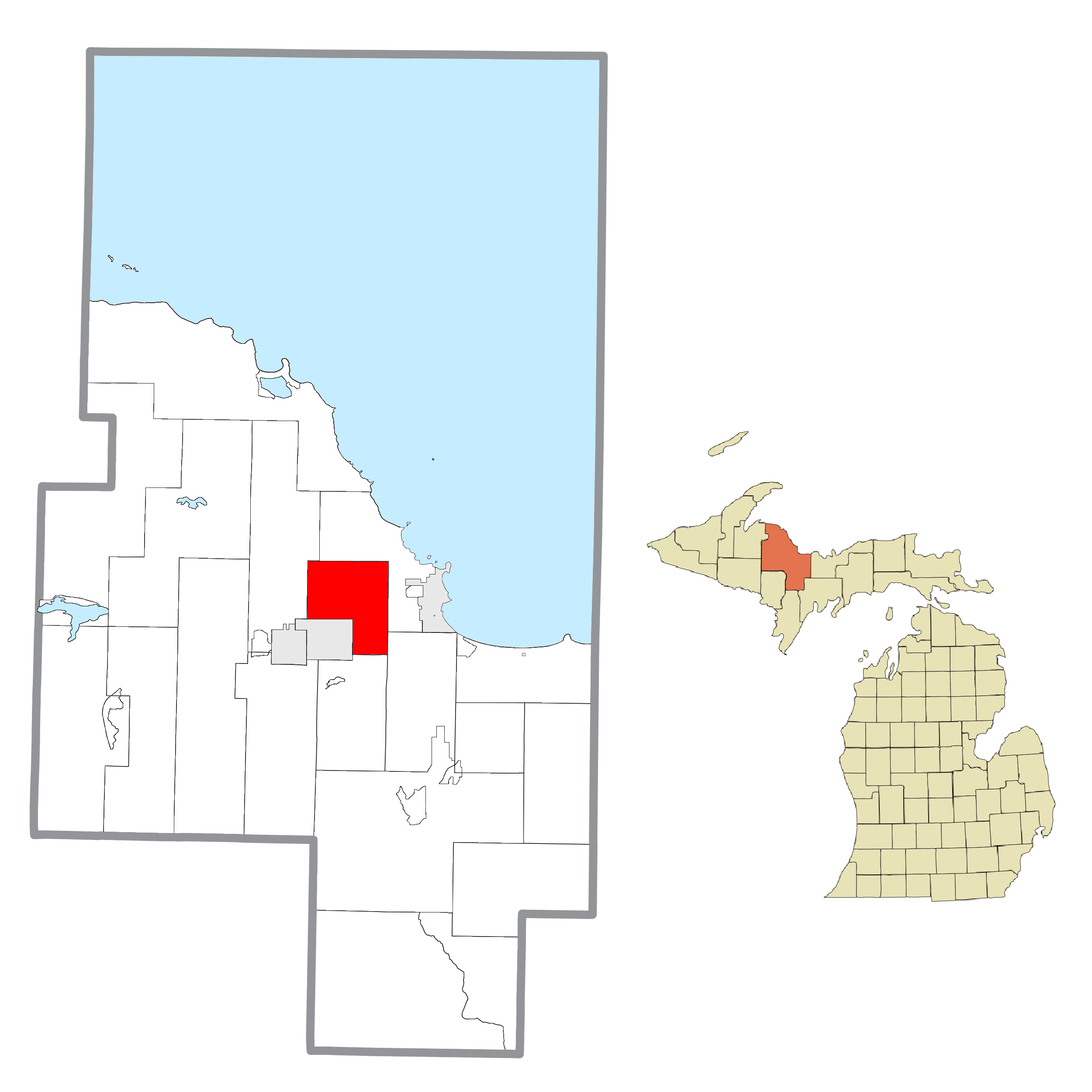 Neguanee Township, MI